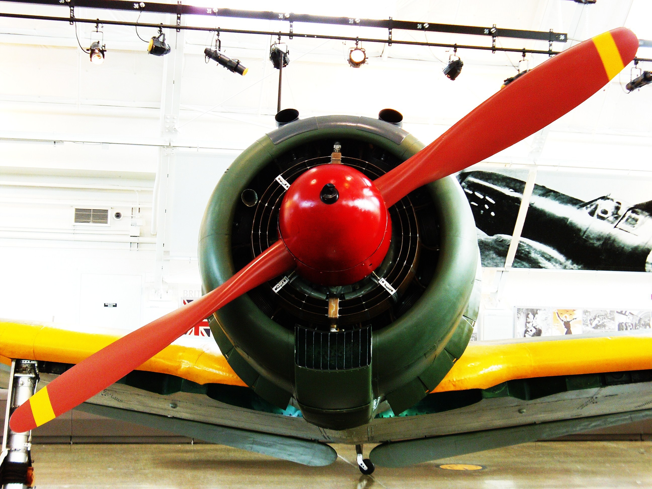 Nakajima Ki-43 Hayabusa - Paine Field USA (2010) - Front view propeller.